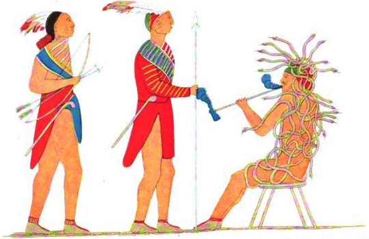 Tadodaho receiving two Mohawk chieftains.